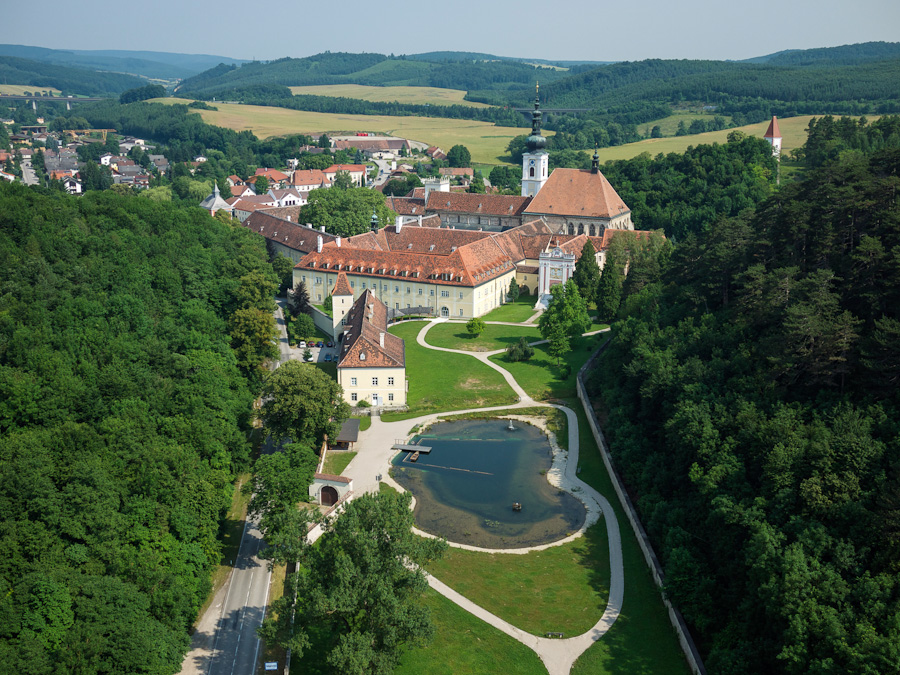 Southern view of the monastery Heiligenkreuz in the Vienna woods - Aerial Photography